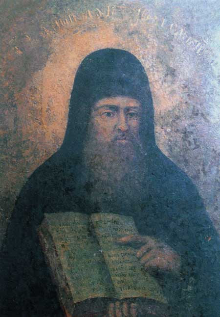 Saint Luke of Caves, Kyiv Caves Monastery, Ukraine.